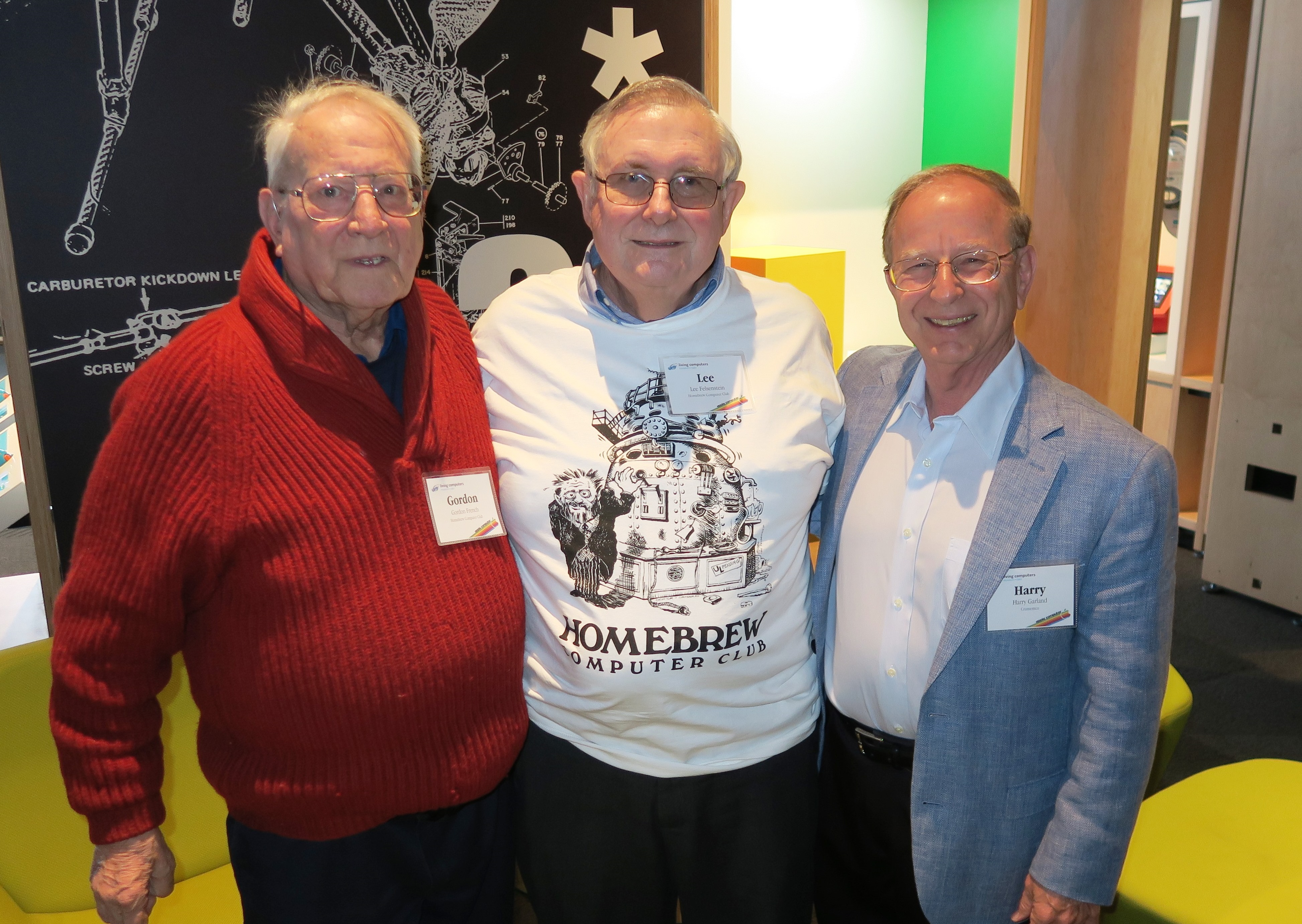 Computer pioneers Gordon French, Lee Felsenstein, and Harry Garland at the Living Computer Museum (Seattle, Washington) April 12, 2017.